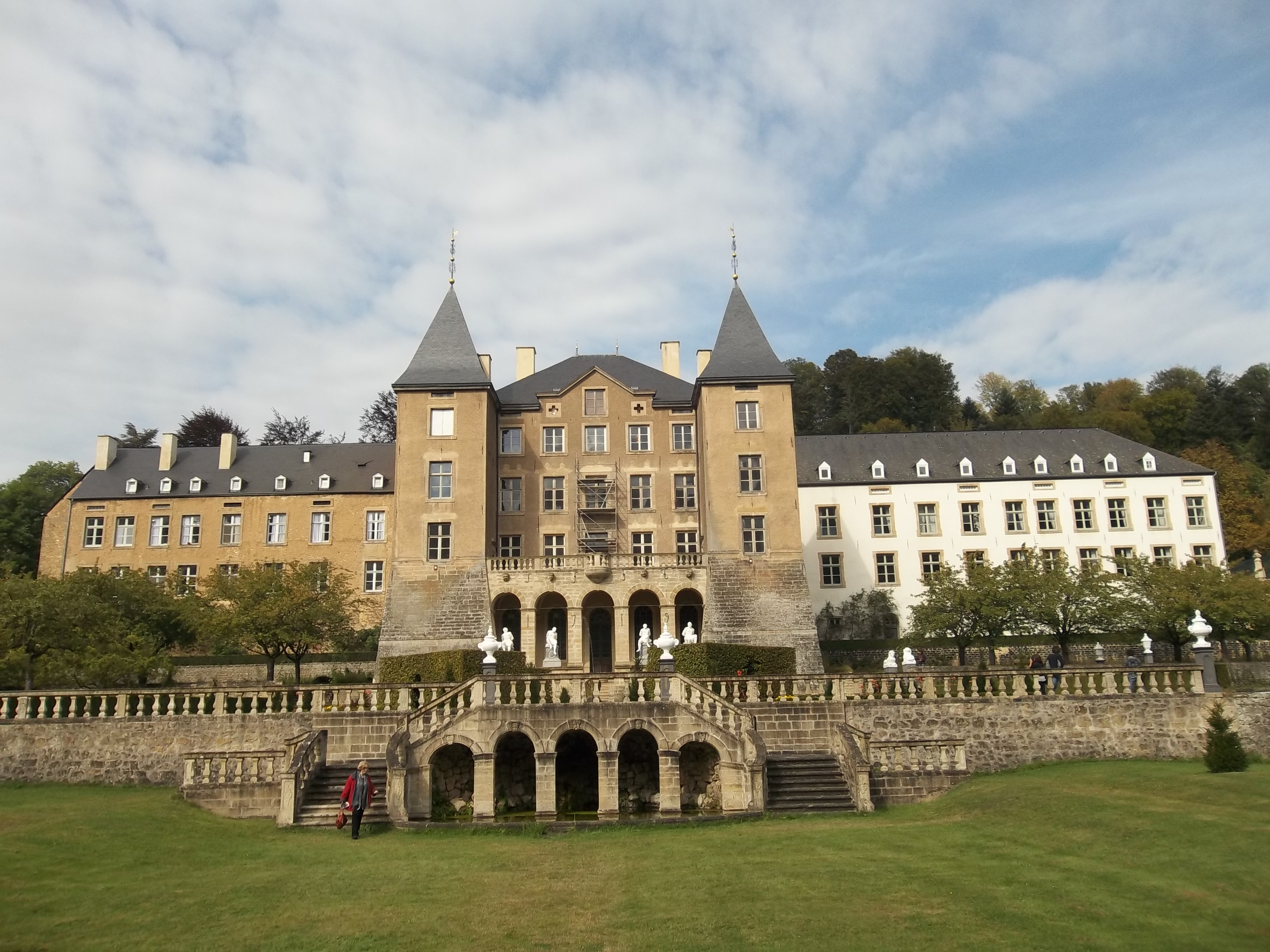 The ancient palace of the Luxembourg iron manufacturer built near his plant in the small valley in Luxembourg would be renovated in the next years.